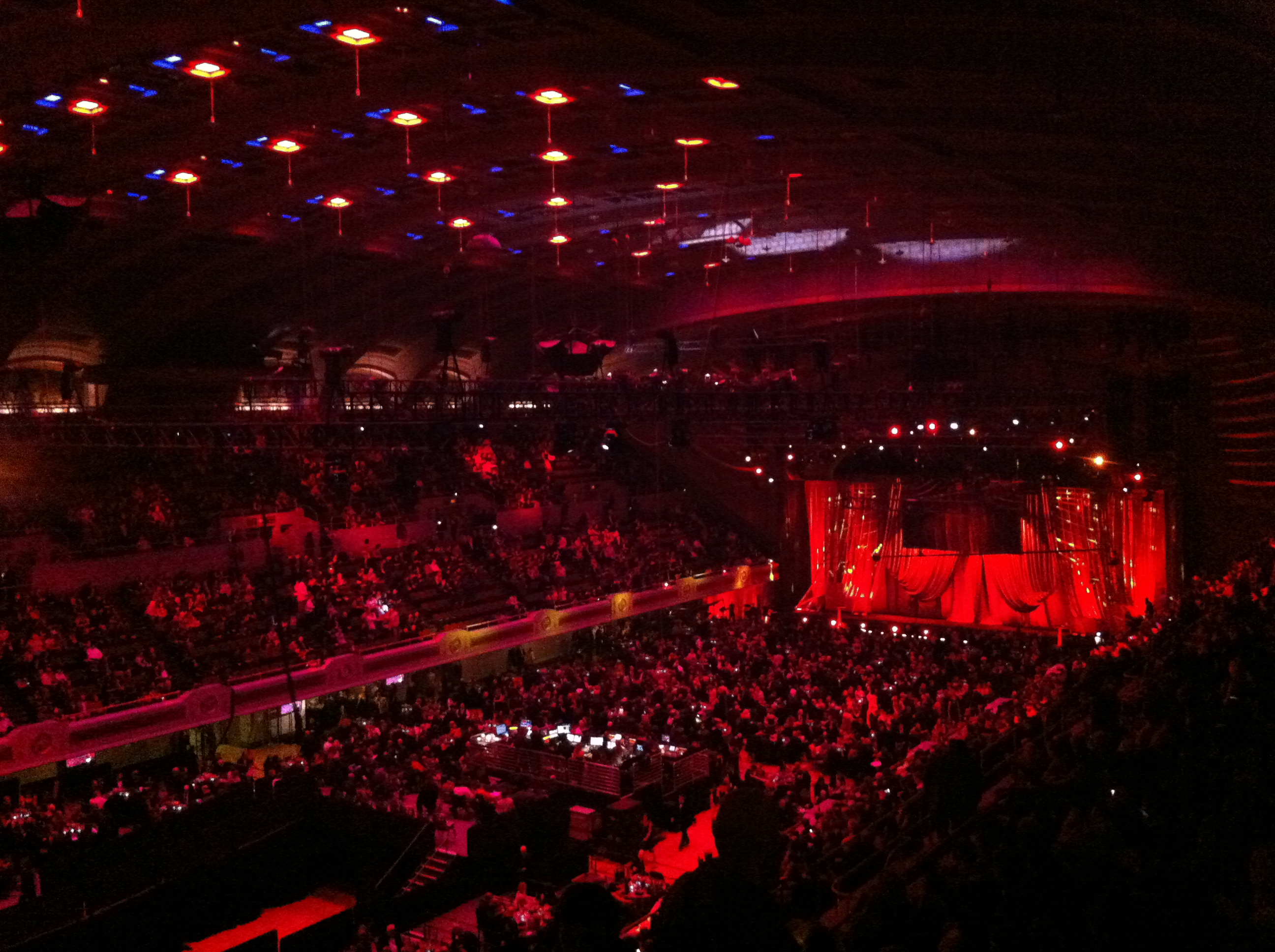 The 2012 Rock and Roll Hall of Fame induction ceremony at Public Auditorium in Cleveland, Ohio